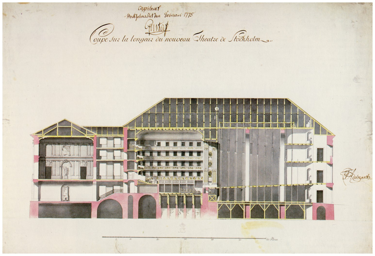 the old Royal Opera House in Stockholm, longitudinal section, 1775